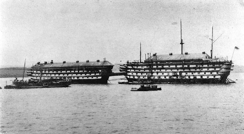 HMS Cambridge and HMS Calcutta. Left is HMS Cambridge, to her right is the Calcutta connected by a bridge. Amazingly HMS Cambridge fired inland over a mudflat using cloth targets on wooden struts stuck in the mud. The gunnery school was moved ashore to HMS Drake in 1907, so this picture obviously predates that.